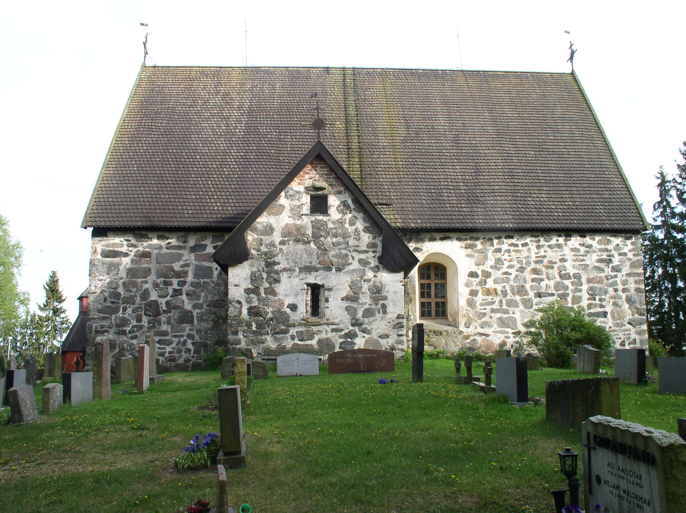 Rusko church in Rusko, Finland.